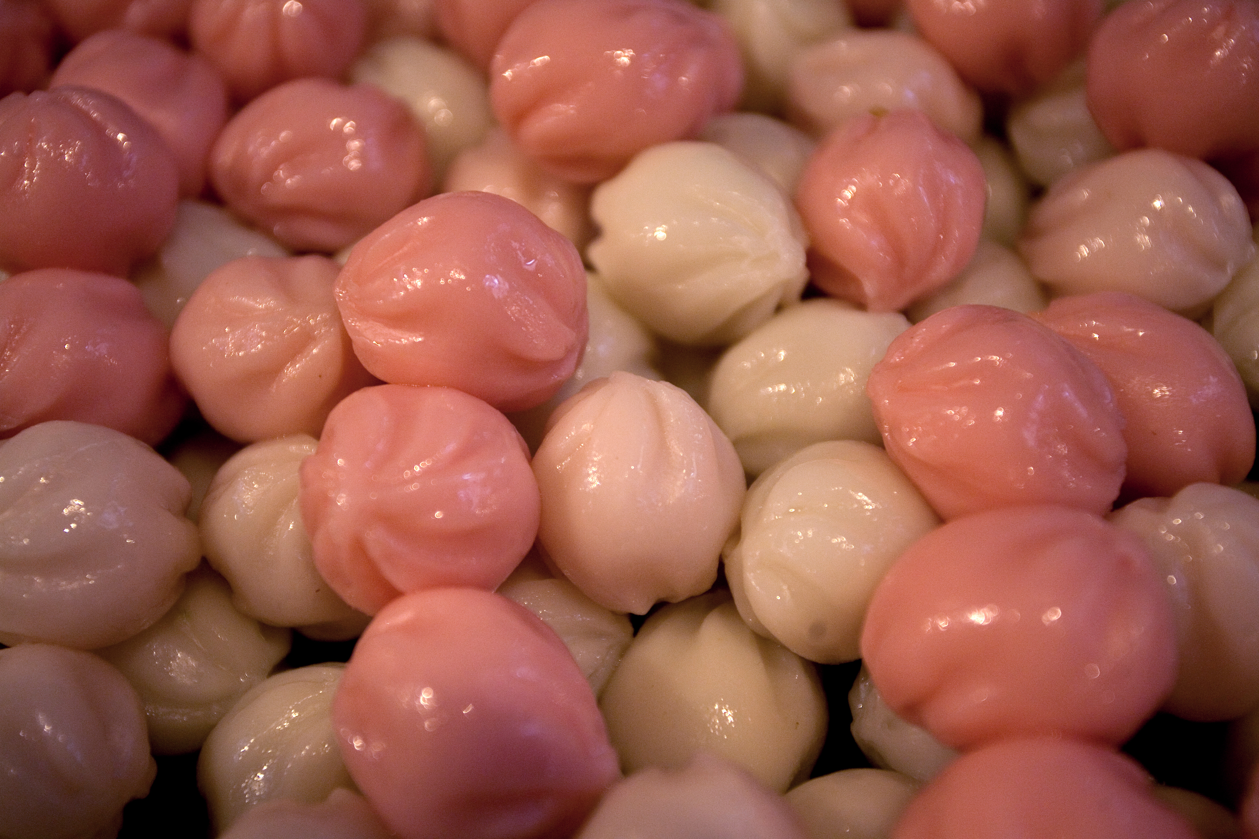 Kkultteok (honey rice cake), Market outside of Osan, Korea